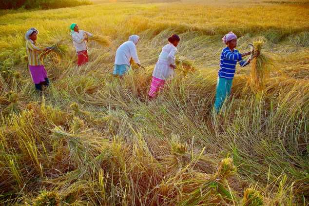 cultivated